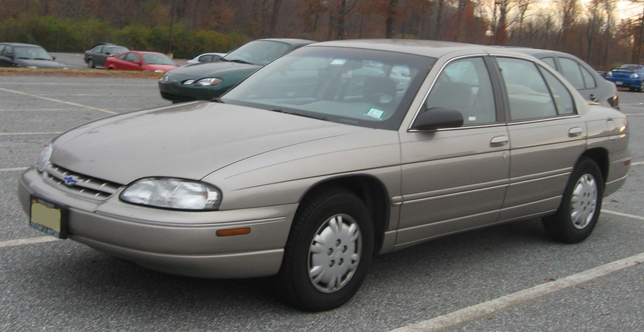 1995-2000 Chevrolet Lumina photographed in College Park, Maryland, USA.